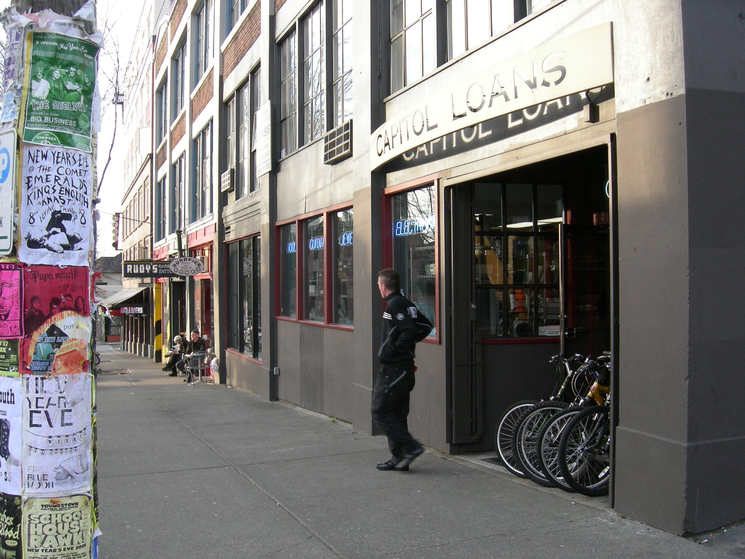 Capitol Loans (pawn shop). North side of E. Pine Street, Pike-Pine Corridor, Capitol Hill, Seattle, Washington.